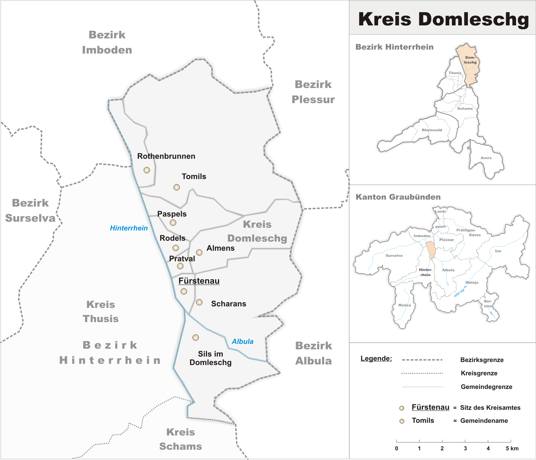 Municipalities in the circle of Domleschg